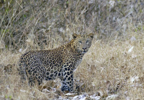 Leopard in Kabini